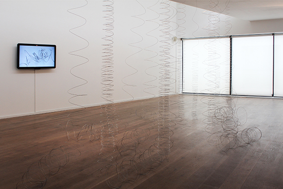 Marie Hanlon: 'Beyond Recall', installation shot, Solstice Arts Centre, Navan, 2014